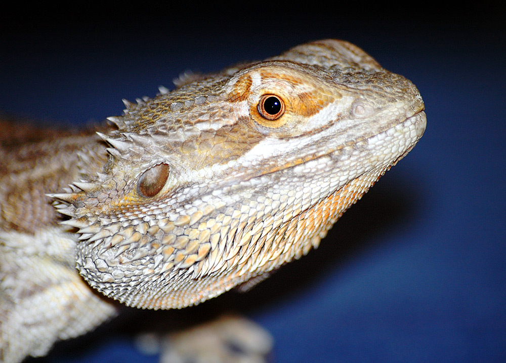 This image shows a close-up photo of a bearded dragon head (Pogona vitticeps).